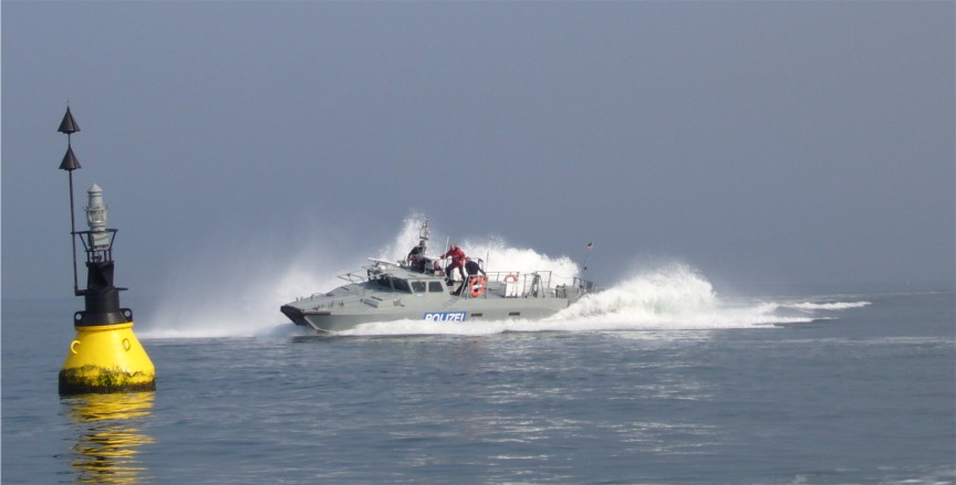 CB 90 HEX, leased by German Wasserschutzpolizei, from the manufacturer, during the G8-summit in Heiligendamm, june 2007.